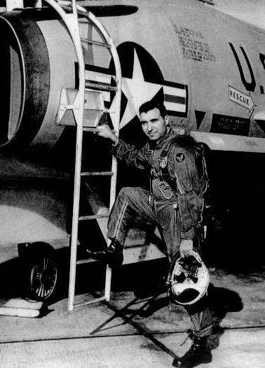 Steve Pisanos in a F102